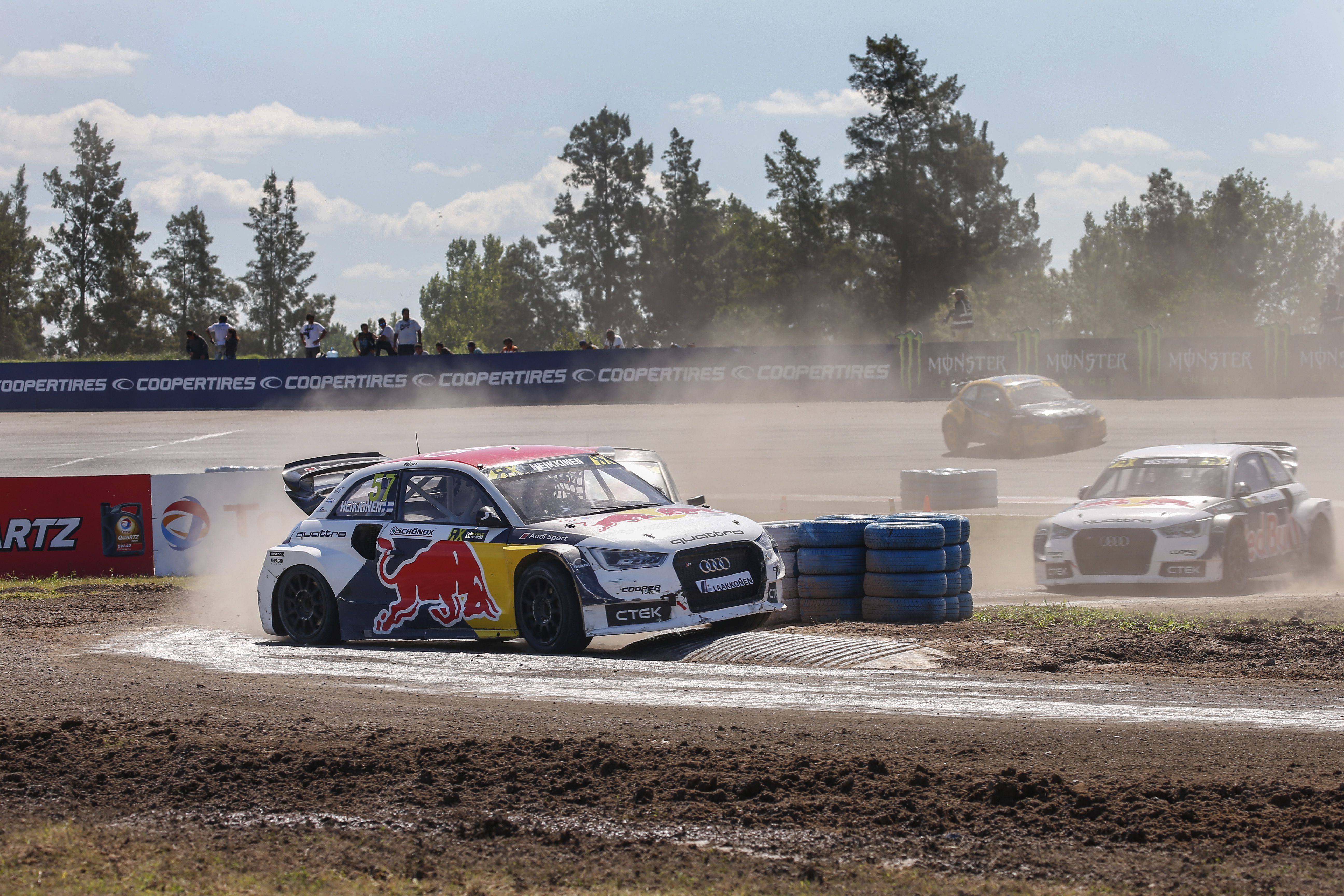 2016 FIA World RX Rallycross Championship / Round 12 / Rosario, Argentina / November 25 - 28, 2016 // Worldwide Copyright:Tony Welam/EKS/McKlein